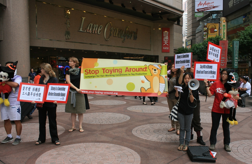 Protest in Hong Kong against the Disney sweatshop toys during Oct 2010.